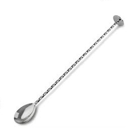 Bar spoon with a little pestle